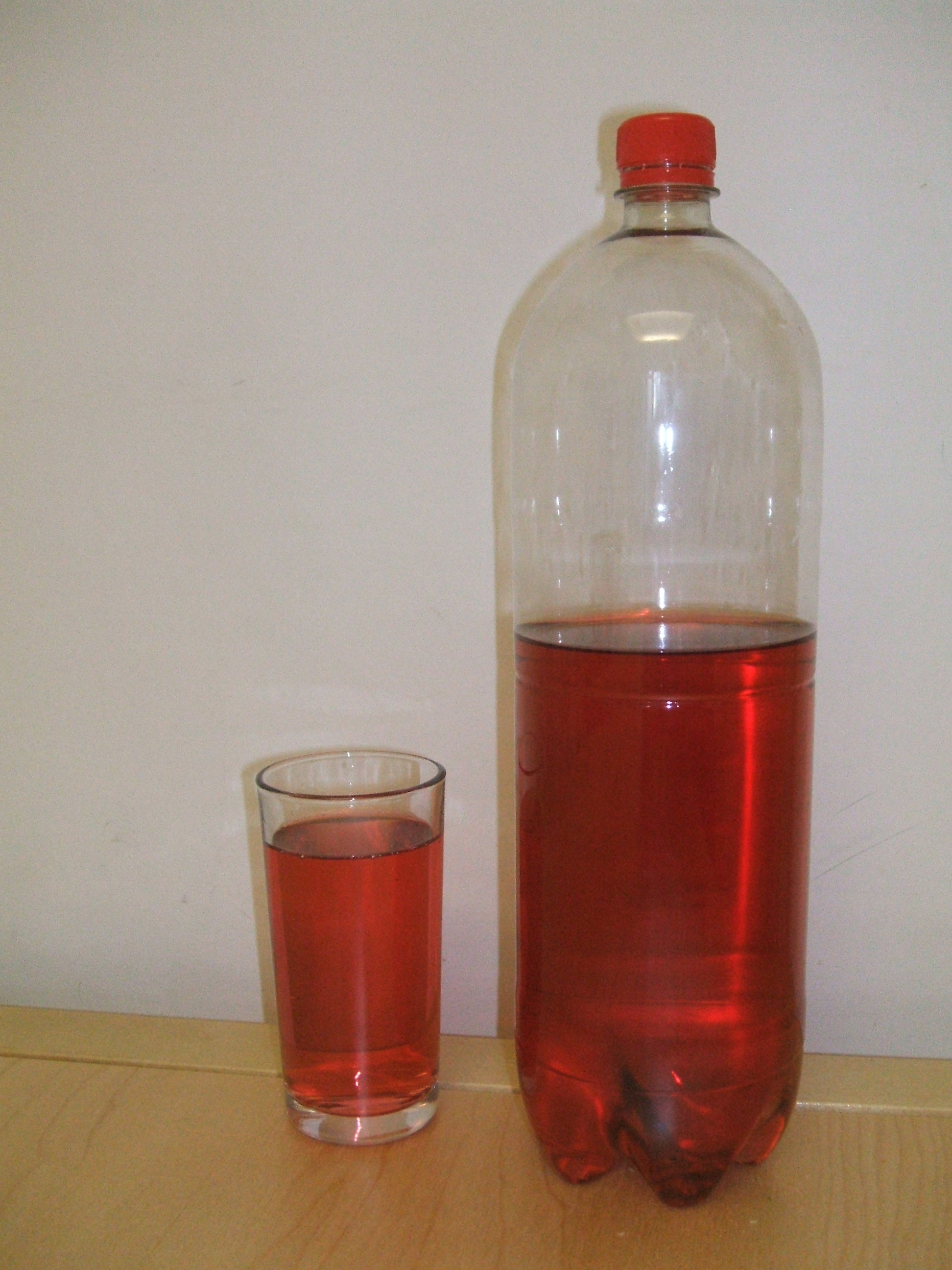 A glass and bottle of cherryade